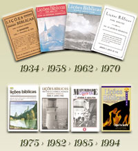 Lessons from past editions Lições Biblicas of the Assemblies of God in Brazil